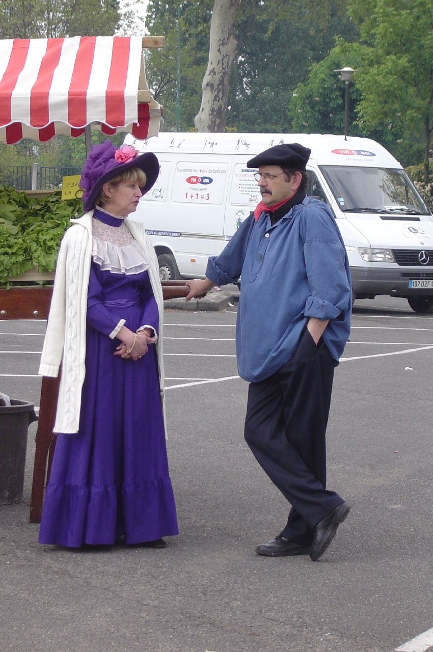 A man and a woman wearing Impressionist era clothings. Photo taken in France during the Impressionist Festival at 1 May 2004. When this file was uploaded to Wikimedia Commons, it was available from Flickr under the stated license. The Flickr user has since stopped distributing the file under this license. As Creative Commons licenses cannot be revoked in this manner, the file is still free to use under the terms of the license specified. See the Creative Commons FAQ on revoking licensing.